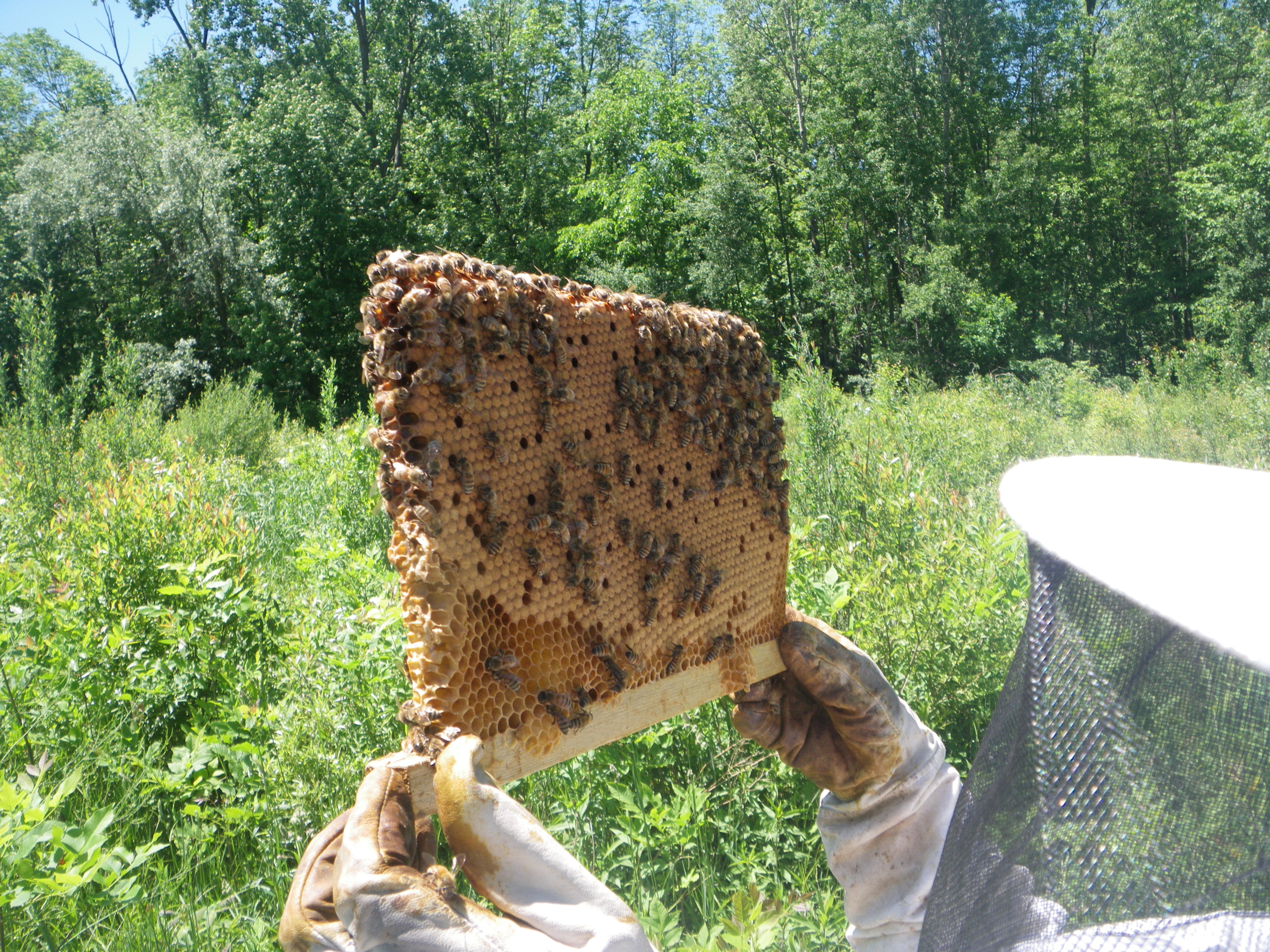 Beekeeper inspecting the brood on a top-bar comb from a warré hive. The complete inspection journal of this warré hive is available here.